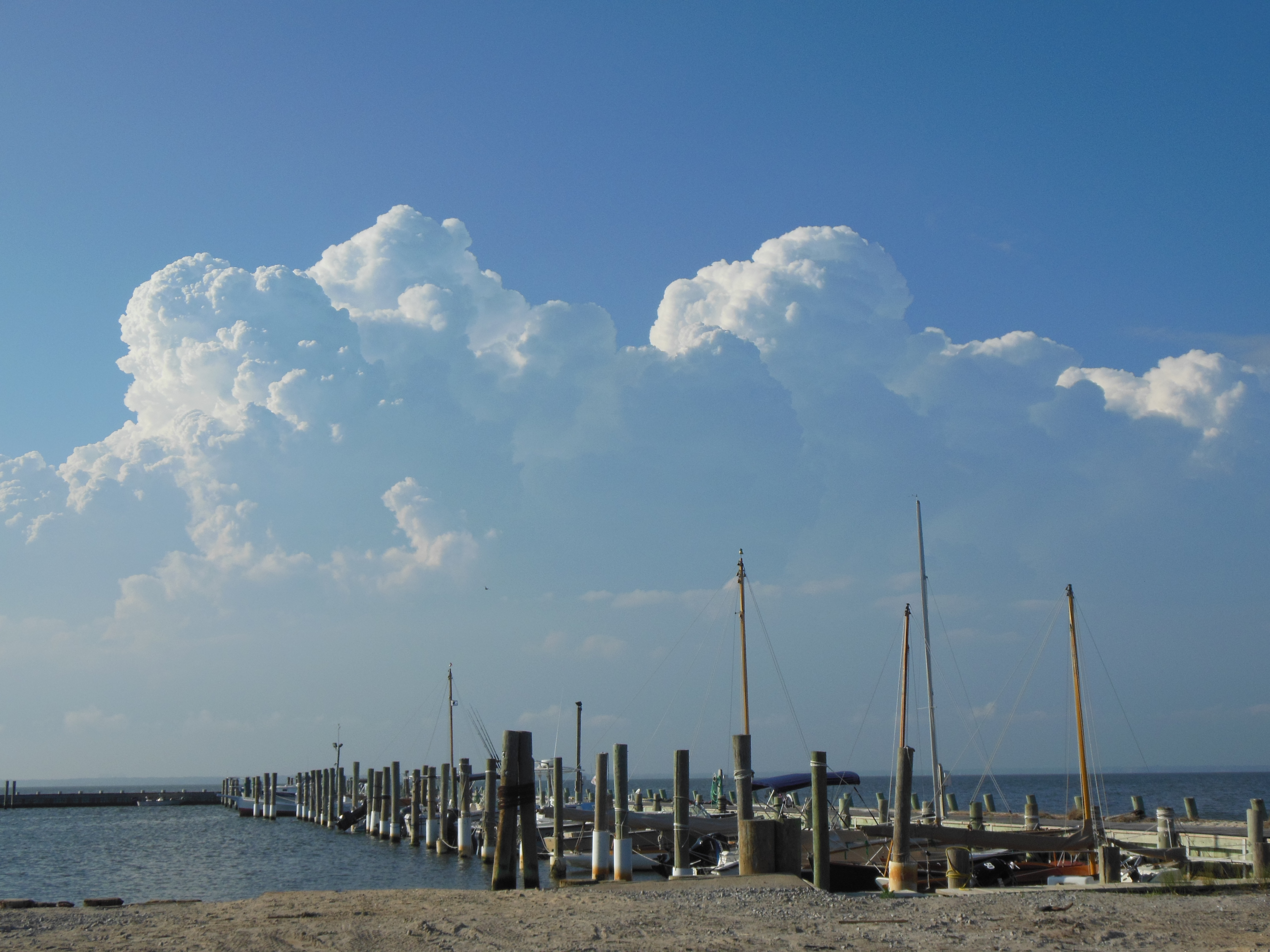 Huge afternoon Cumulus congestus clouds over Long Island, New York, viewed from Fire Island